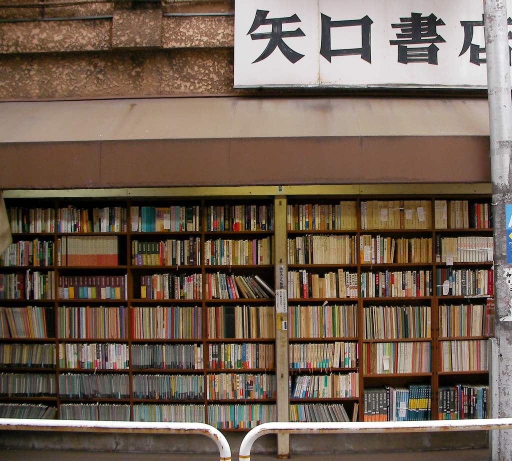 Used bookstore (Yaguchi-Shoten,Jinbōchō,Chiyoda,Tokyo,Japan)